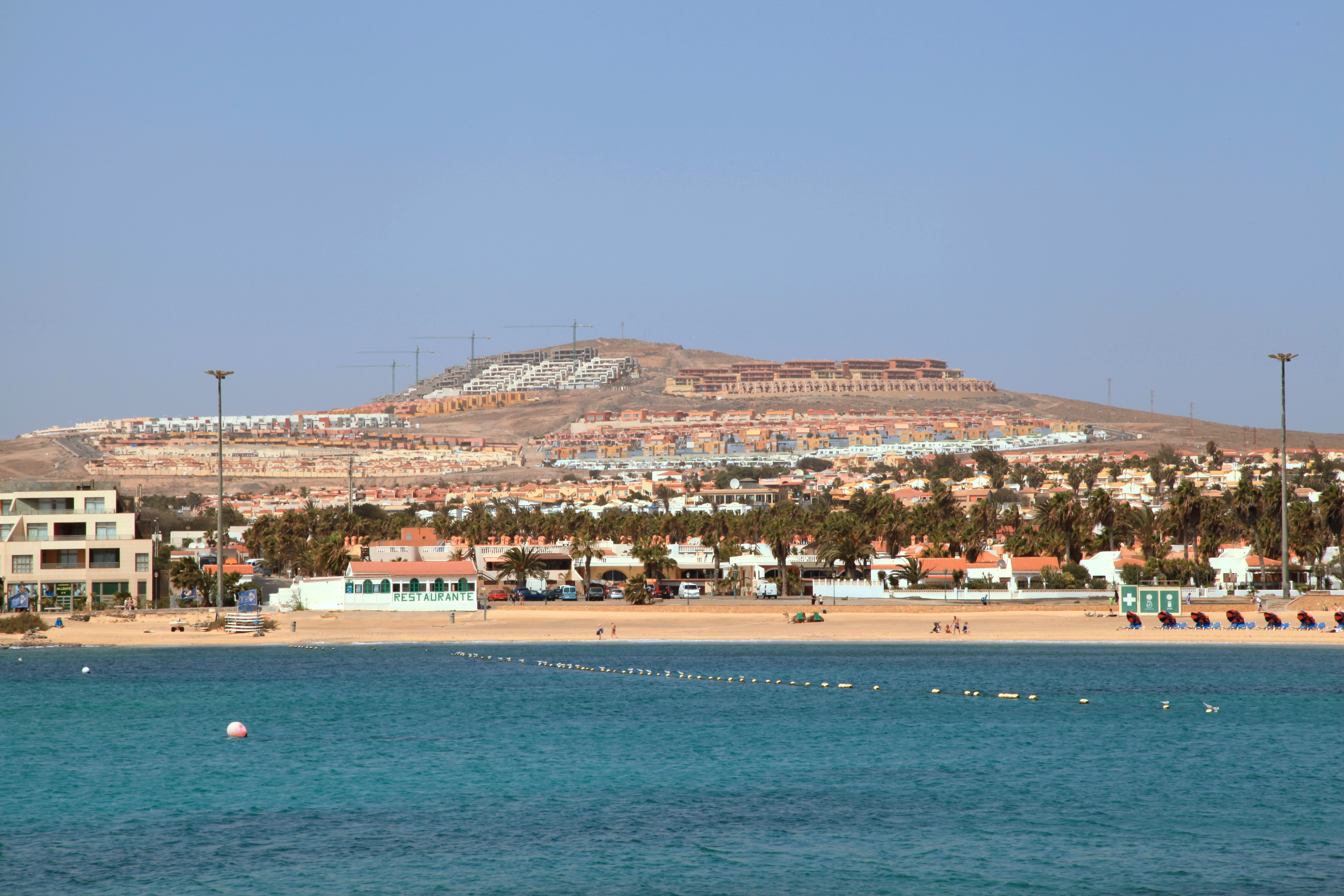 Playa de Castillo with Montaña Blanca de Abajo in background, Calle de Peatonal Orchilla, Caleta de Fuste in Antigua, Fuerteventura, Canary Islands